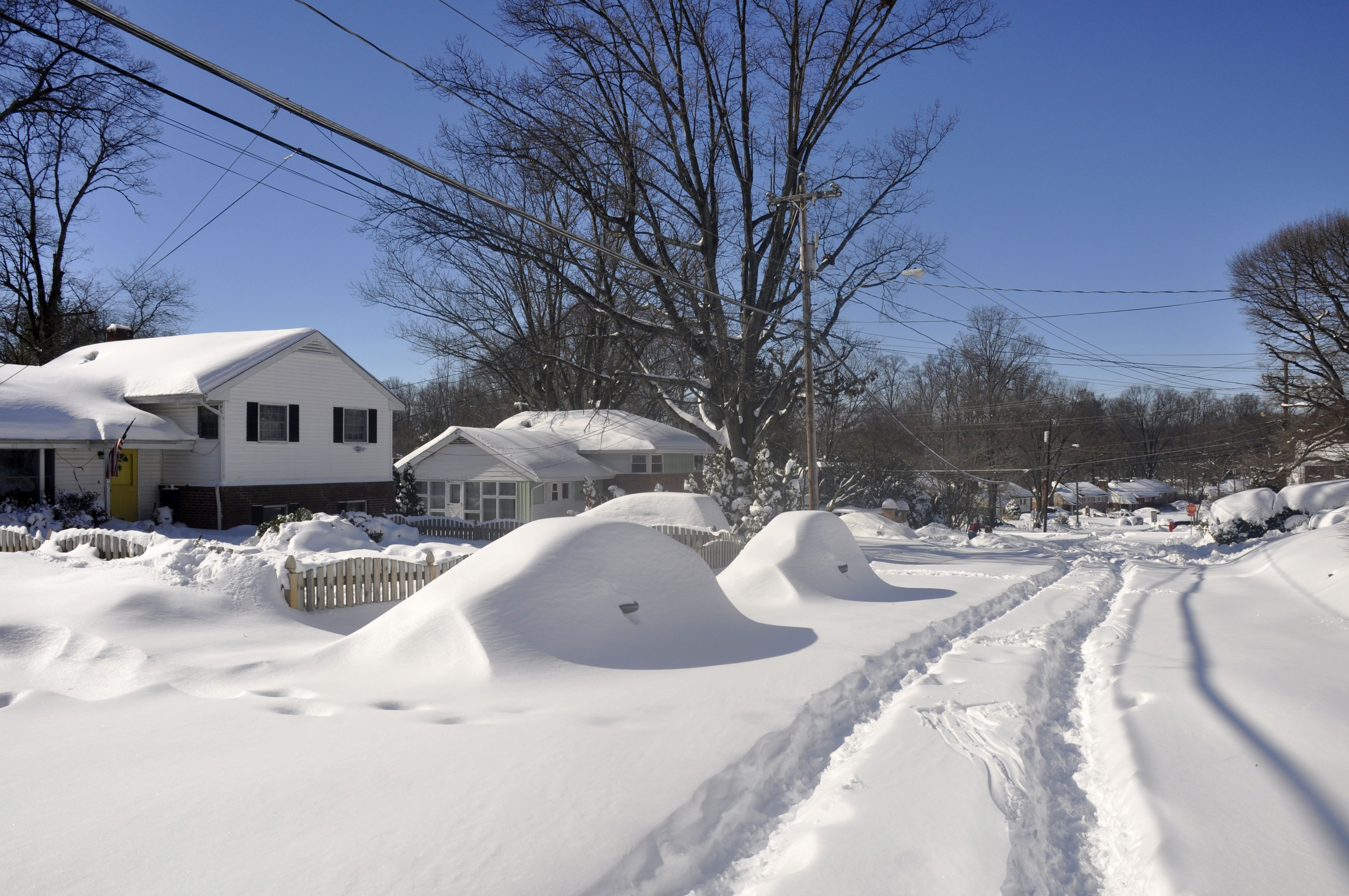 Aftermaths of January 2016 United States blizzard in Fairfax Villa neighborhood in Fairfax, Virginia.